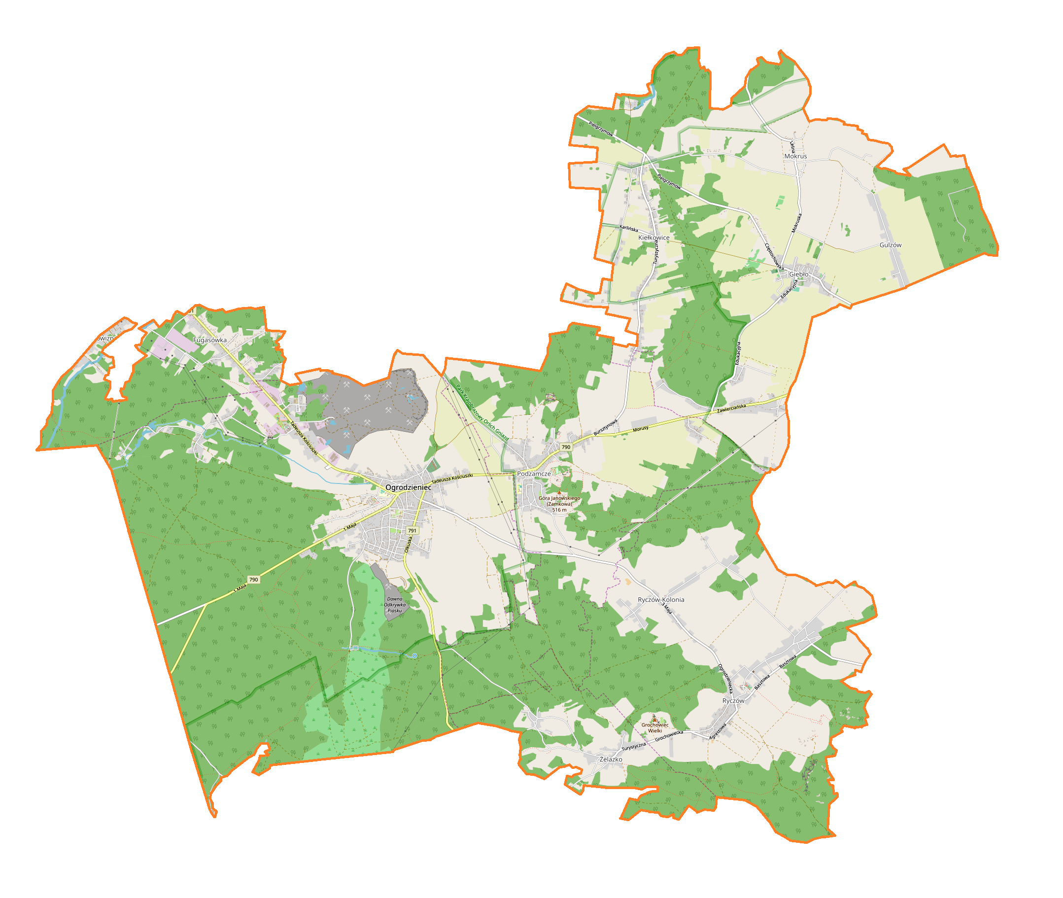 Location map